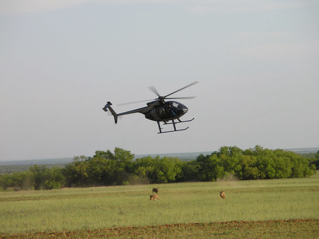 aerial gunning, aerial shooting - Feral hog hunt by helicopter (MD Helicopters MD 500E (369E)), Texas Wildlife Services